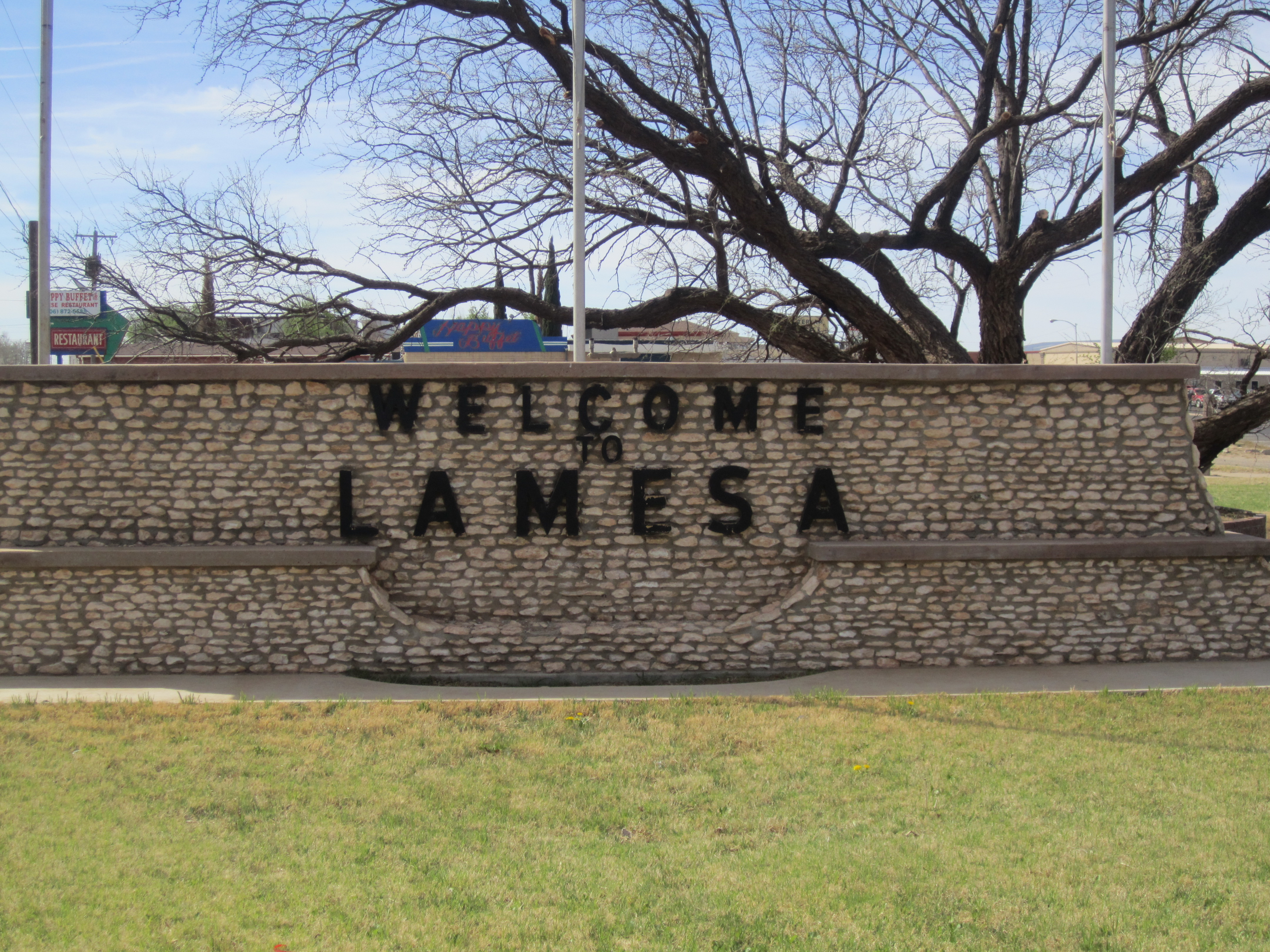 I took photo with Canon camera in Lamesa, TX.